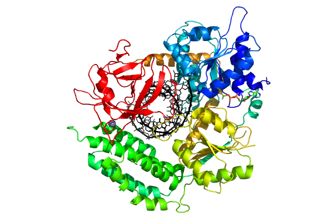 A complex structure of helicase and repressor domain of Retinoic-acid-inducible gene-I protein(RIG-I) with dsRNA. This file is made from a protein data bank(PDB) file, 3MTI.